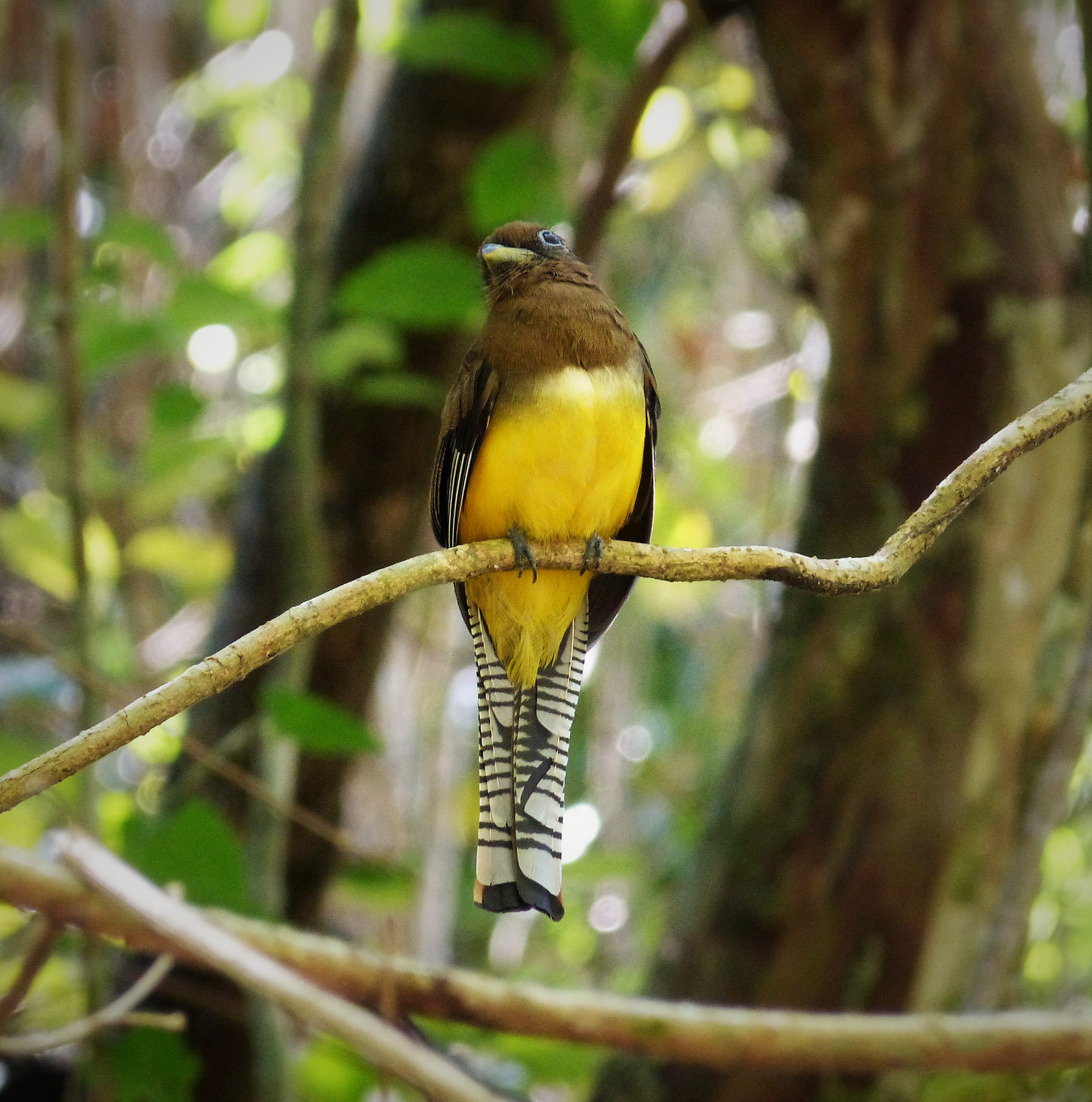 Metropolitan Nature Park. Panama city